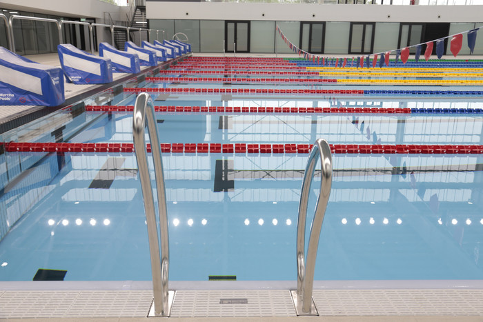 Swimming pools of the Youth Olympic Centre.